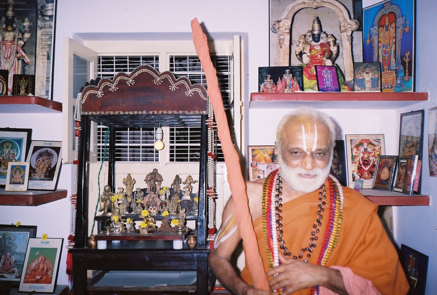 His Holiness Sri Sri Sri Abhinava Vageesha Brahmatantra Swatantra Parakala Swami, the (current) 36th Pontiff of Sri Parakala Mutt